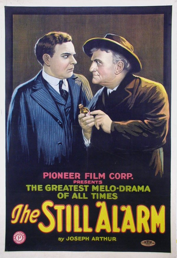 Film poster for 1918 American silent film version of the The Still Alarm with Tom Santschi, which was based on the original play by Joseph Arthur.